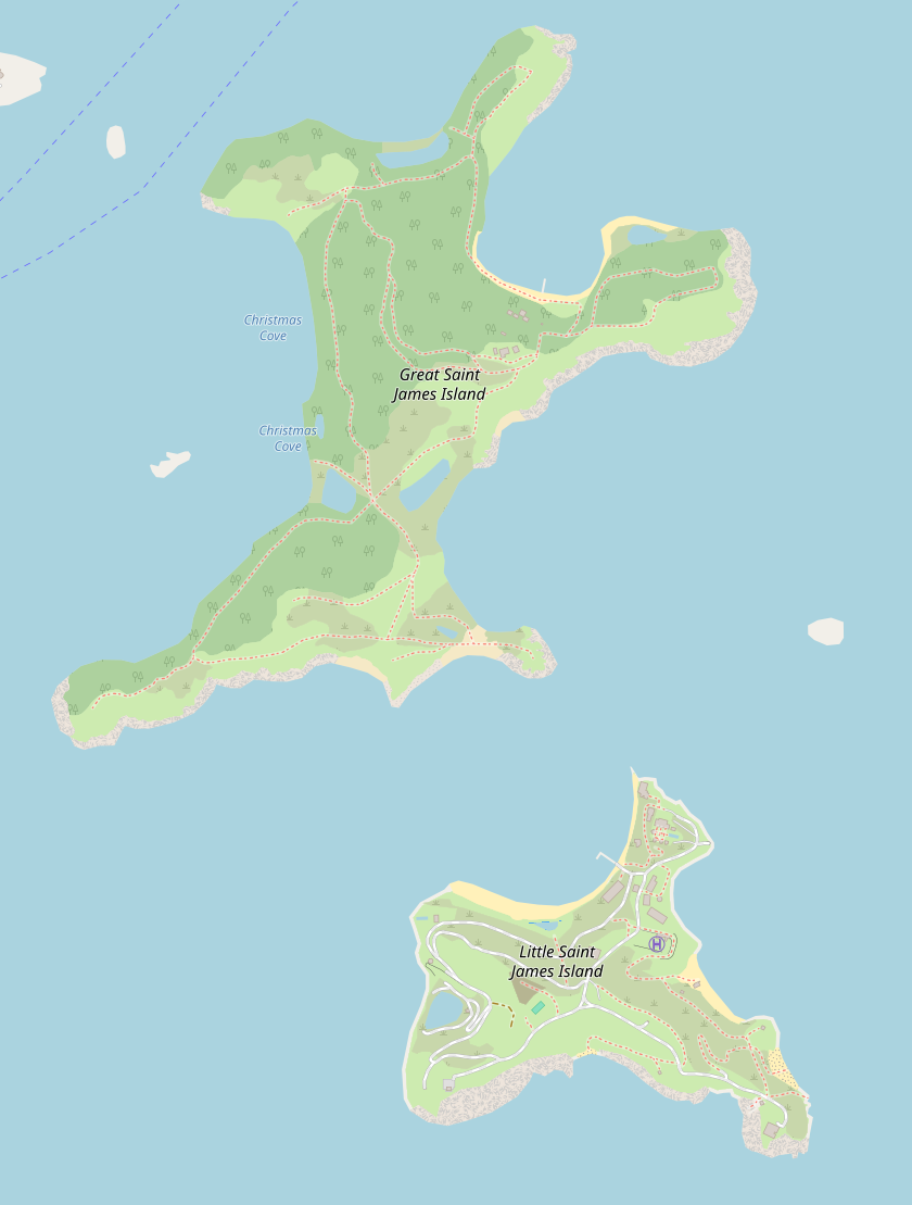 Saint James Islands, U.S. Virgin Islands, United States OpenStreetMap cut-out (or derivative work based on it)